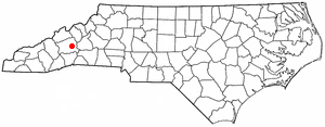 Category:North Carolina Dot Maps